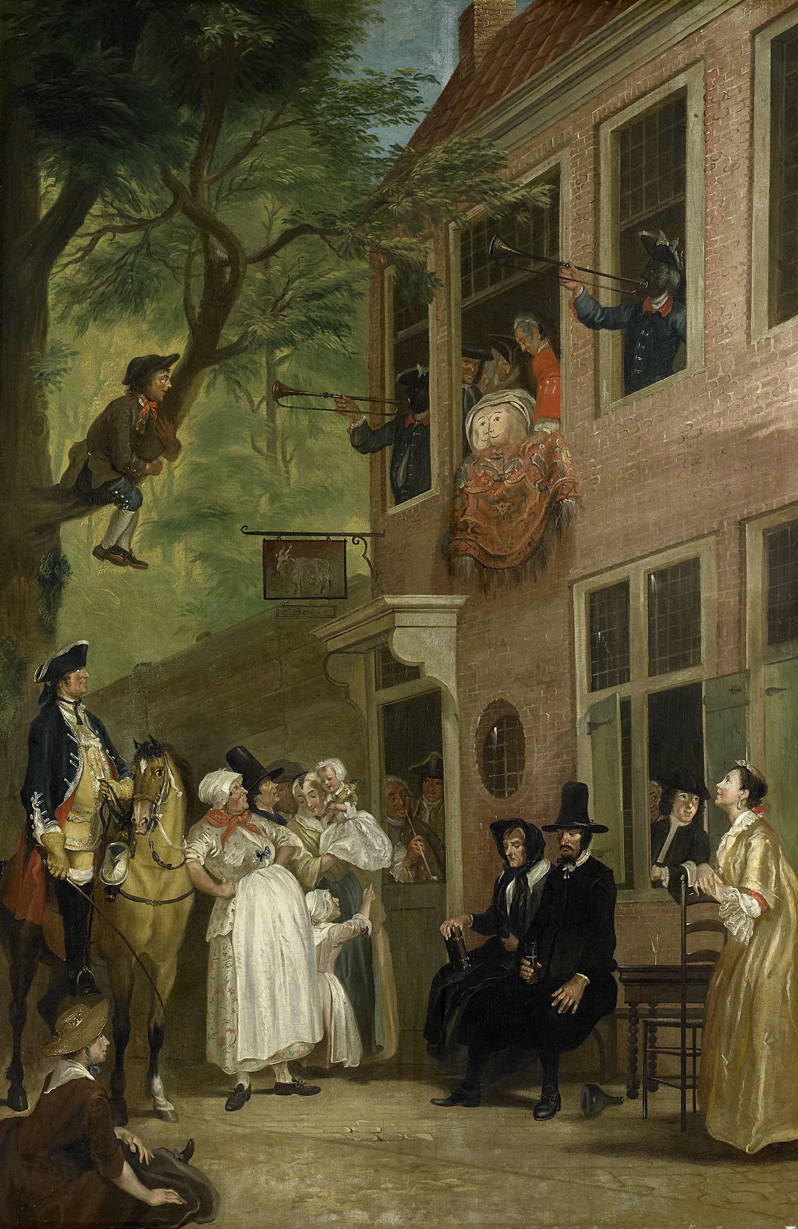 'The Misled': the ambassador of the Rascals shows up at the window of the Tavern t'Bokki in Haarlemmerhout (a joke perpetrated by Jacob Campo Weyerman and associates). A group of people look on to a pair of painted buttocks (representing either one two-eyed face or two kissing people) which is stuck in the window of the inn, flanked by two trumpeters with black-painted faces. In front of the inn are sitting a black-clad man and woman, bibles in hand.